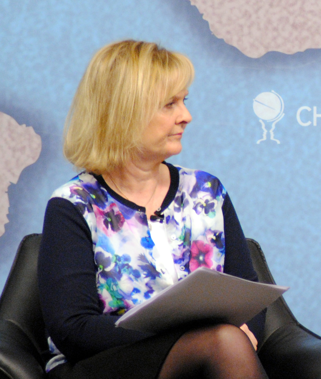 Martha Kearney at 'The UK and the World: British Foreign Policy in the 21st Century', 21 January 2014, cht.hm/1jkFLbs